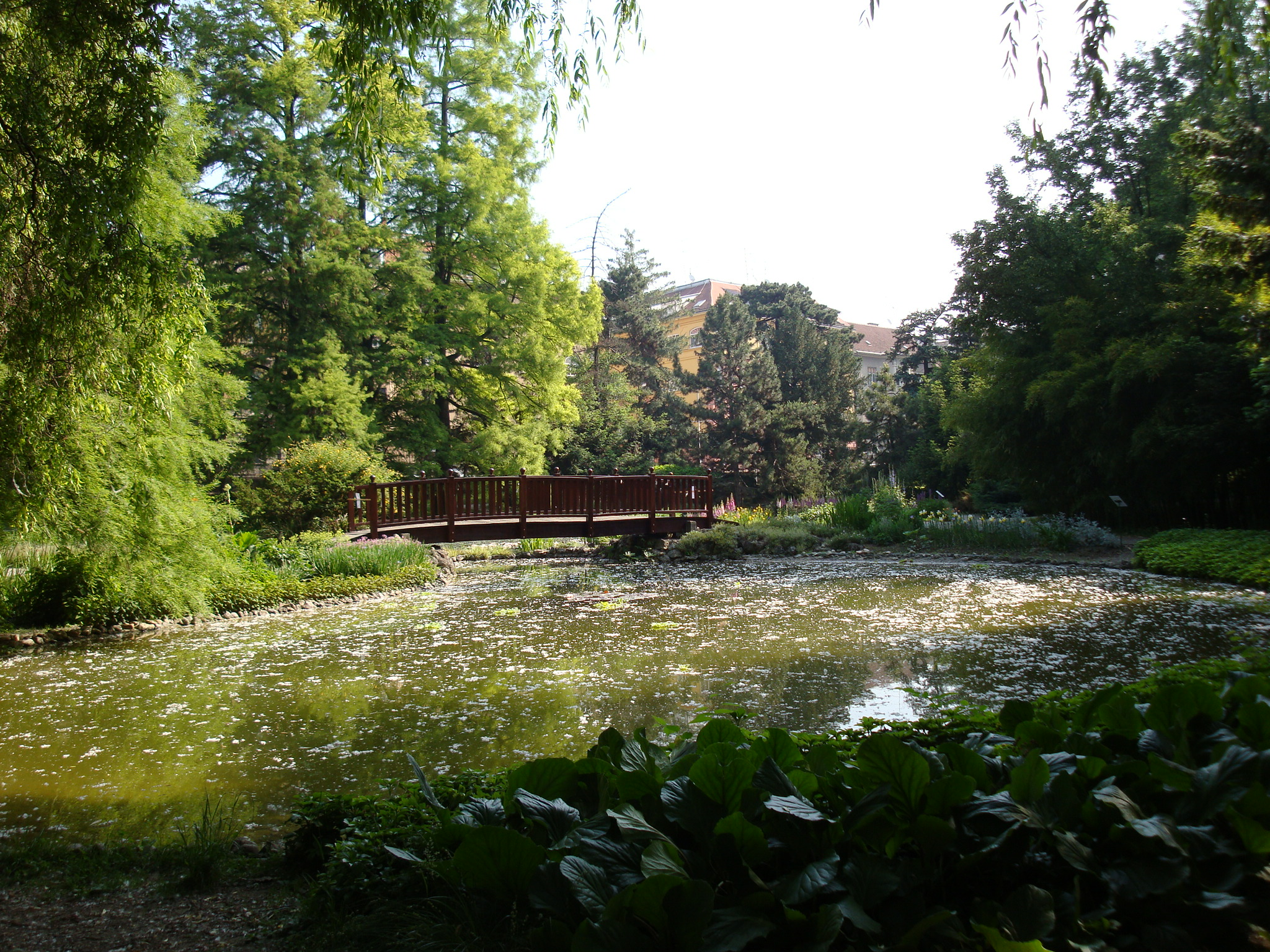 Jardin botanique de Zagreb, Pièce d'eau